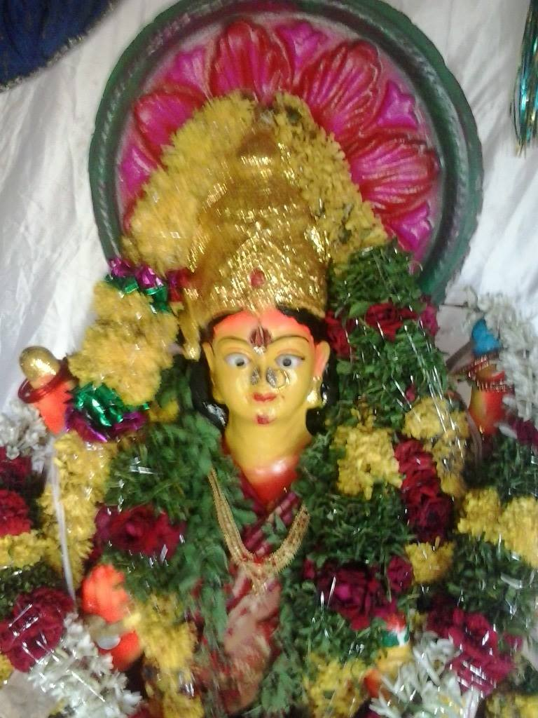 First dussehra celebration